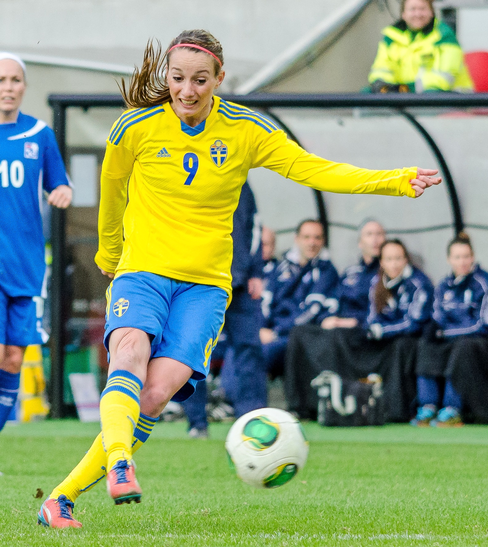 Swedish striker Kosovare Asllani playing for the Swedish Women's National team in the 2-0 victory over Iceland at Myresjöhus Arena, 6 April 2013.